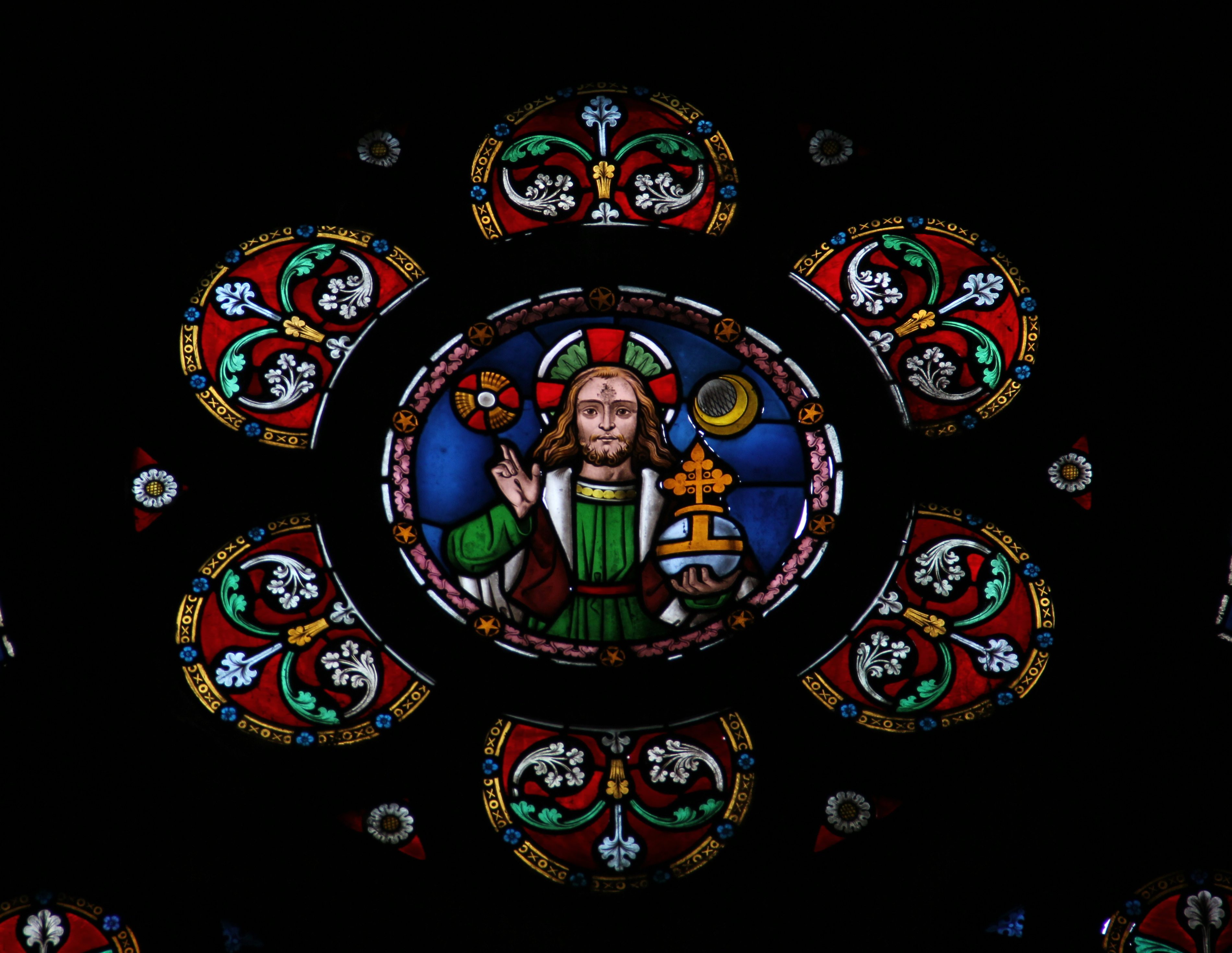 Interior of the Church of St Thomas, Thurstonland, Huddersfield, West Yorkshire, England. Built 1870, designed by James Mallinson and William Swinden Barber. Roundel from top of east window by William Wailes, 1870.